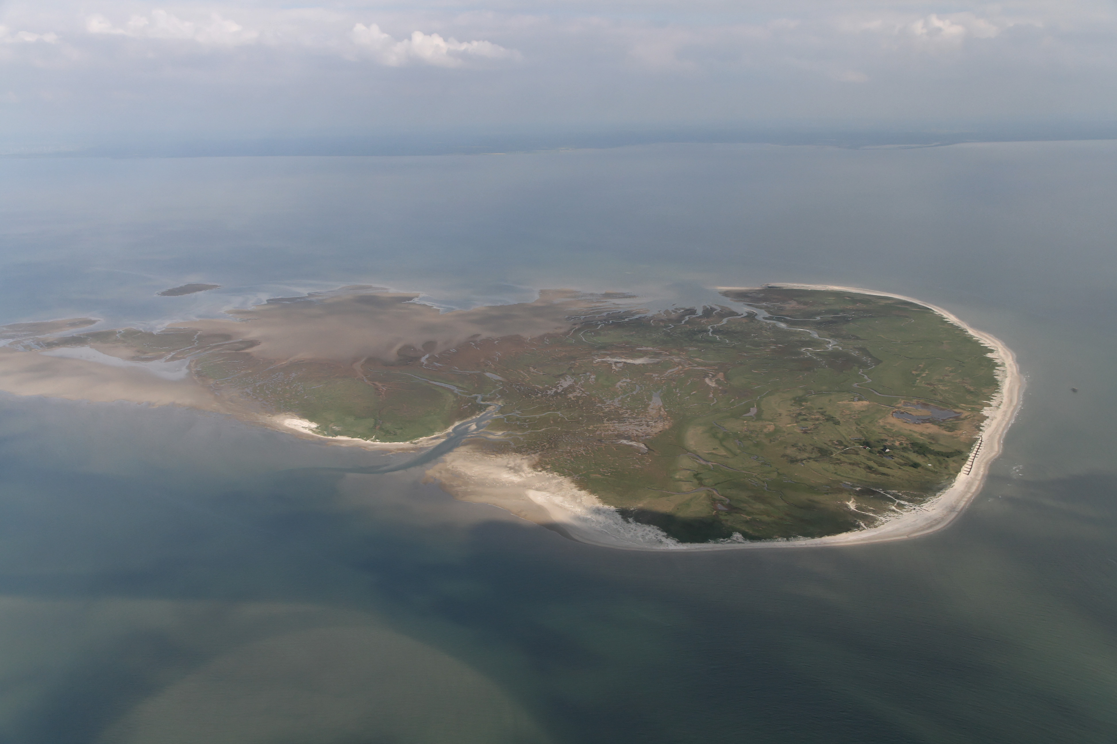 A aerial photograph of a unidentified location.